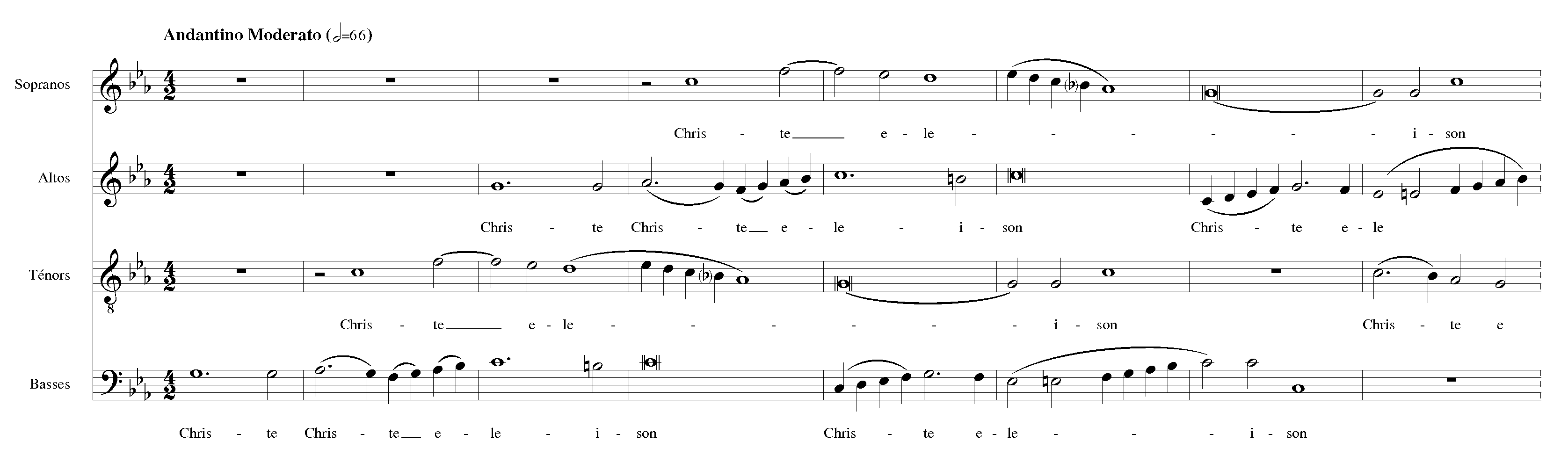 2nd part of Kyrie from Petite messe solennelle by Rossini (double canon)